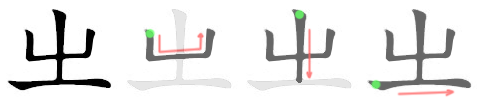 This ㄓ_var-bw.png image depicting the stroke order of the character ㄓ_var in bw.png style. This image is part of the Commons:Stroke Order Project(zh-de-ja), a project to create a complete set of images depicting the right stroke order (Protocols).The 214 Kangxi radicals have been completed. We currently work on the most frequent characters. Help is welcome.